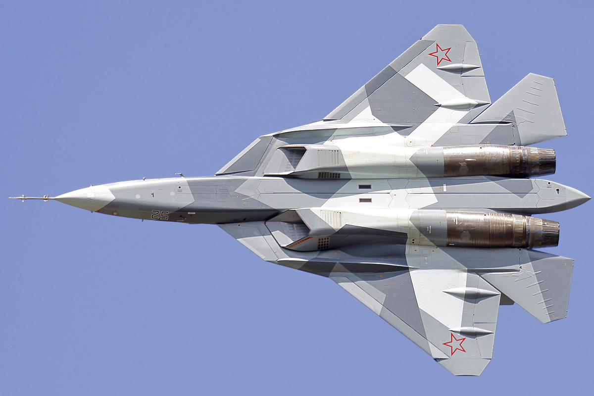 Sukhoi T-50 stealth multirole aircraft